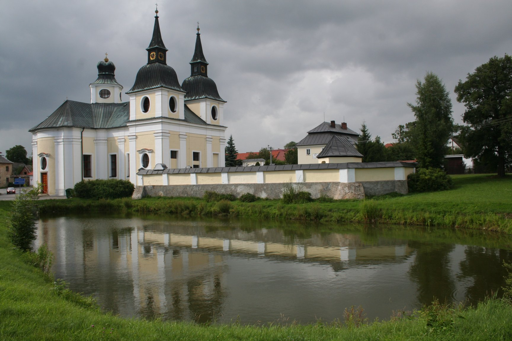 Santini's St. Wenceslas church in Zvole, Czech Republic